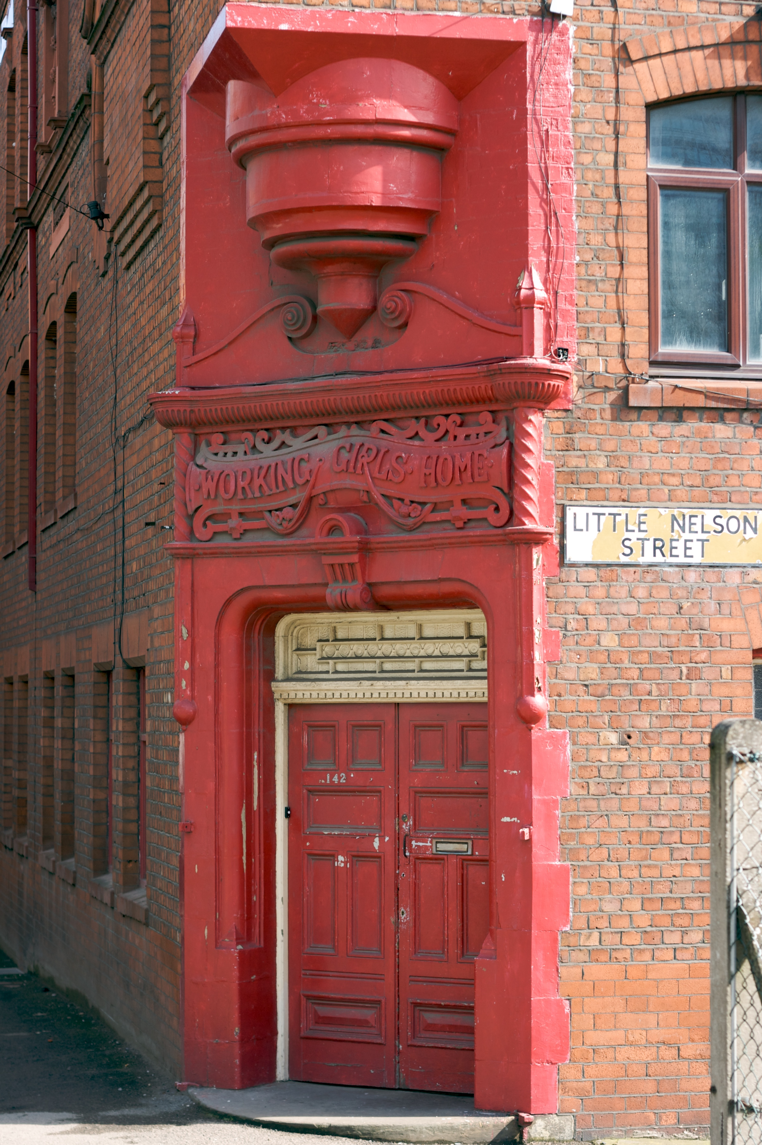 The main door to the old Charter Street Ragged School and Working Girls Home, Dantzic Street, Manchester. Many documents from the school are listed in the National Archives , and held at Greater Manchester County Records office.